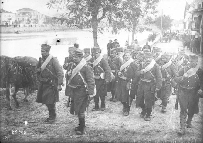 Serbian patrol in Uskub (Skopje) after its capture during the First Balkan War